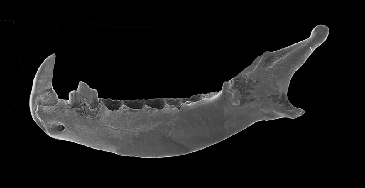 Necrolestes patagonensis lower jaw in medial view. Holotype: MACN A-5742 (Museo Argentino de Ciencias Naturales "Bernardino Rivadavia", Buenos Aires, Argentina - National Ameghino Collection)